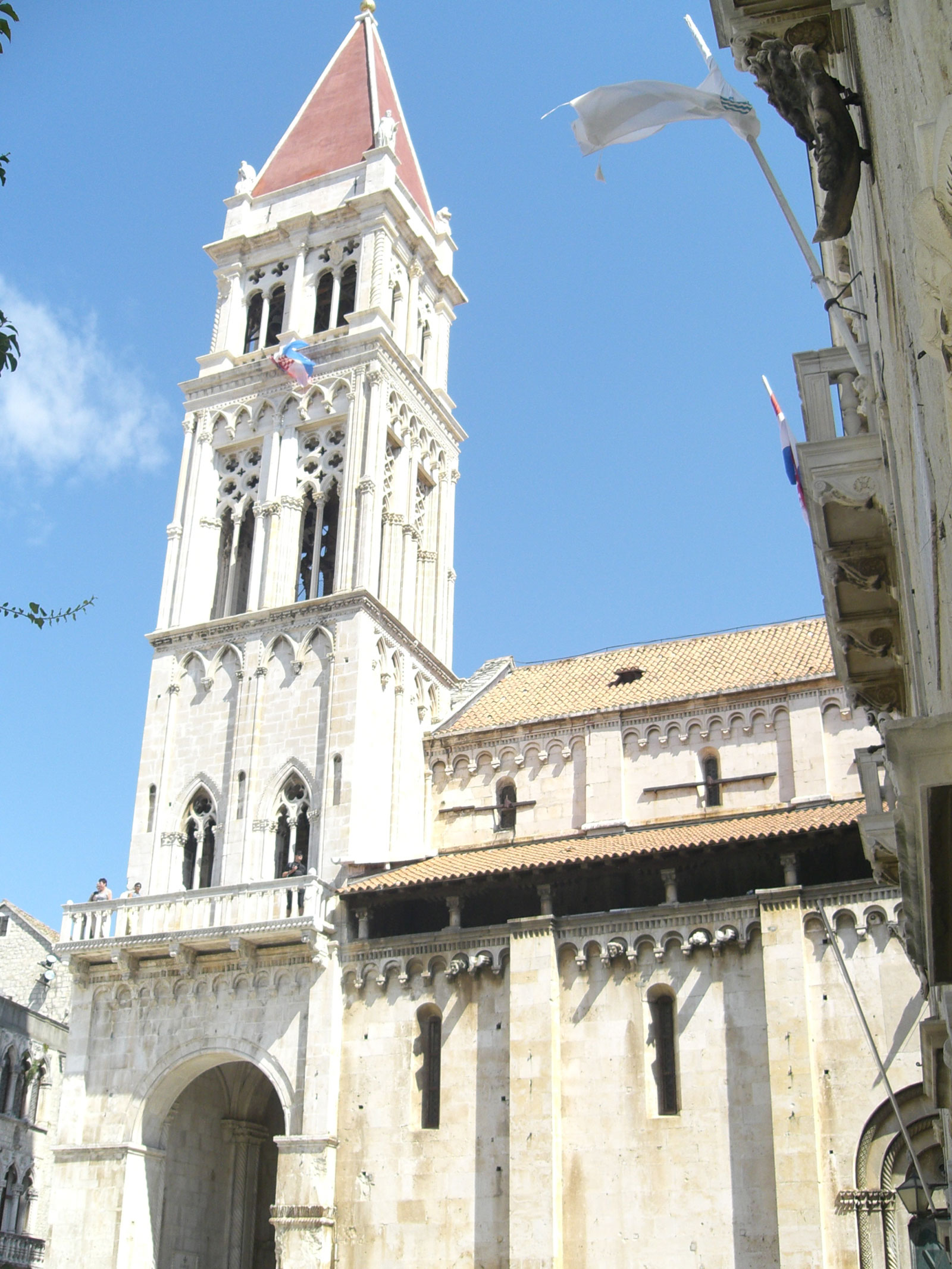 Trogir - cathedral from the town hall